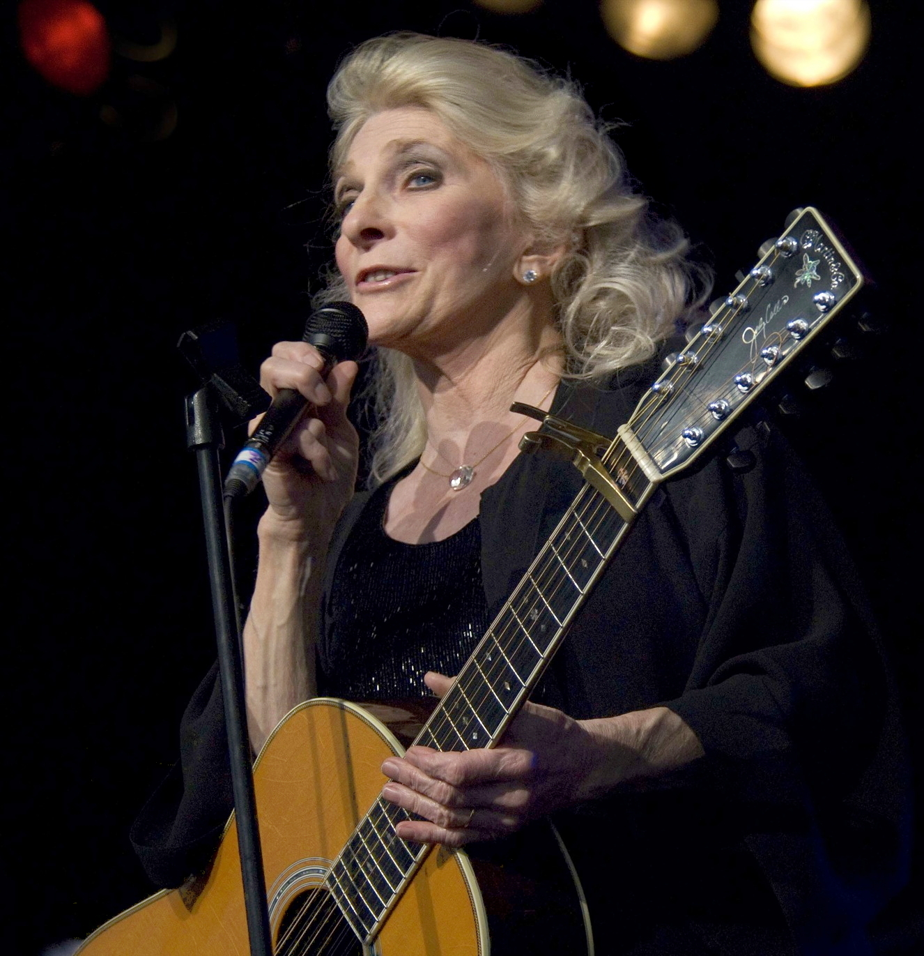 Judy Collins at the Cambridge Folk Festival 2008.